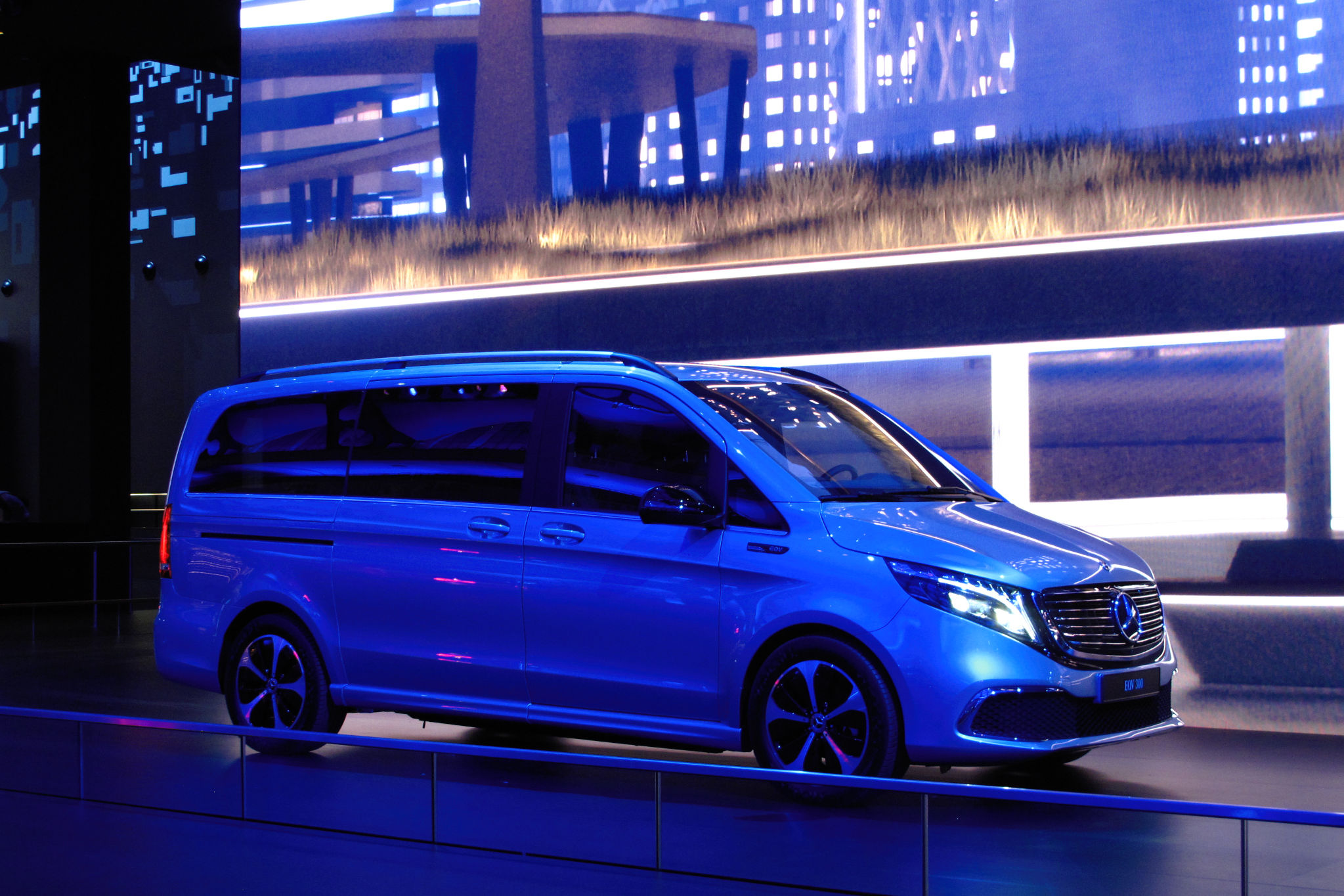 IAA Frankfurt 2019 The Mercedes-Benz V-Class goes electric. The EQV, as the electric V-Class is named, features a battery with a usable capacity of 90 kWh, which facilitates a maximum range of 405 kilometres. The electric drivetrain has a power output of 150 kW/204 hp.